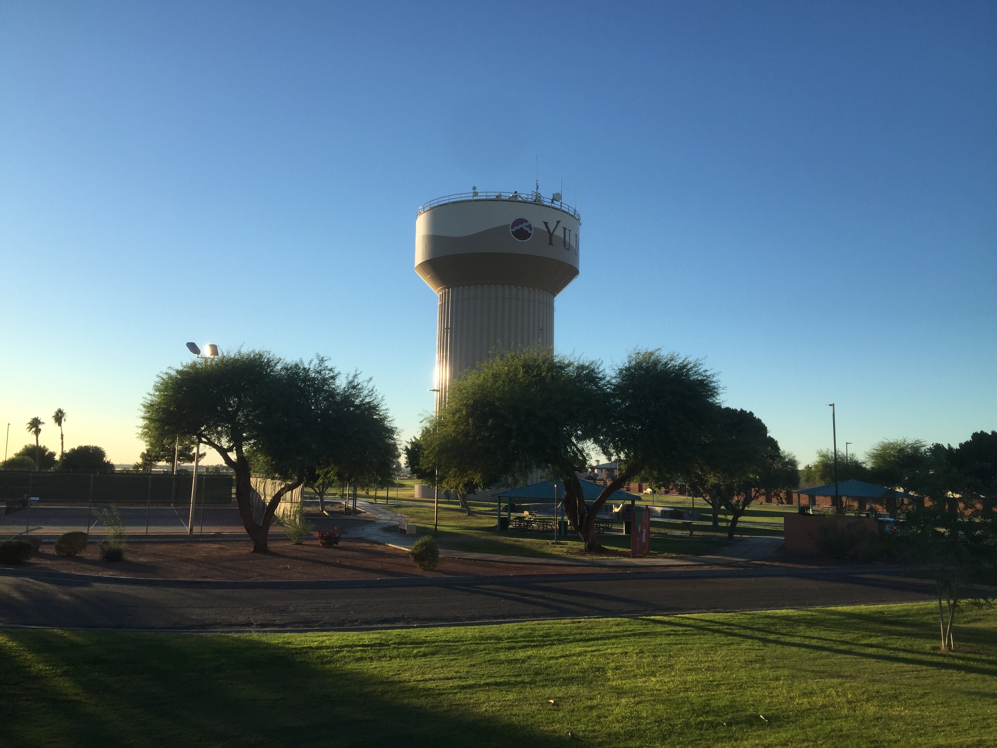 Yuma Water Tower, Yuma, AZ, USA 10-31-15